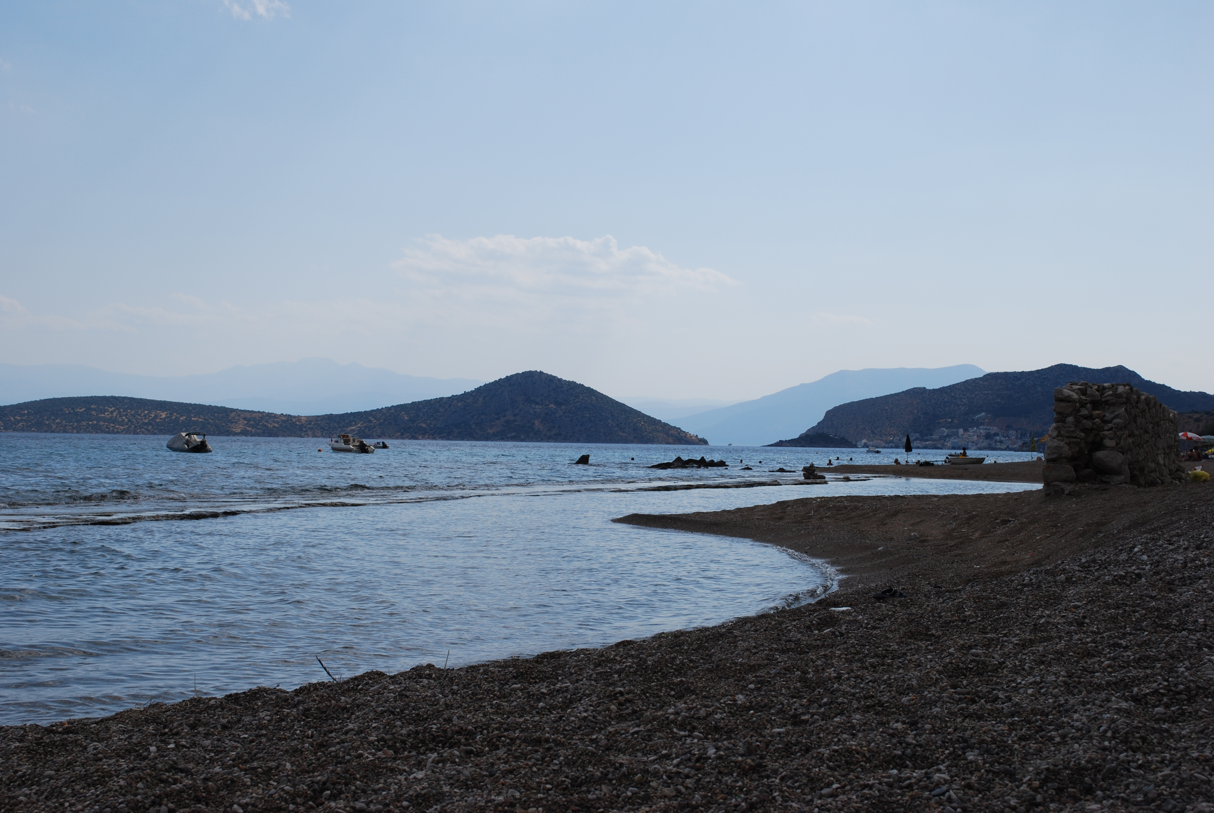 Asini Beach.